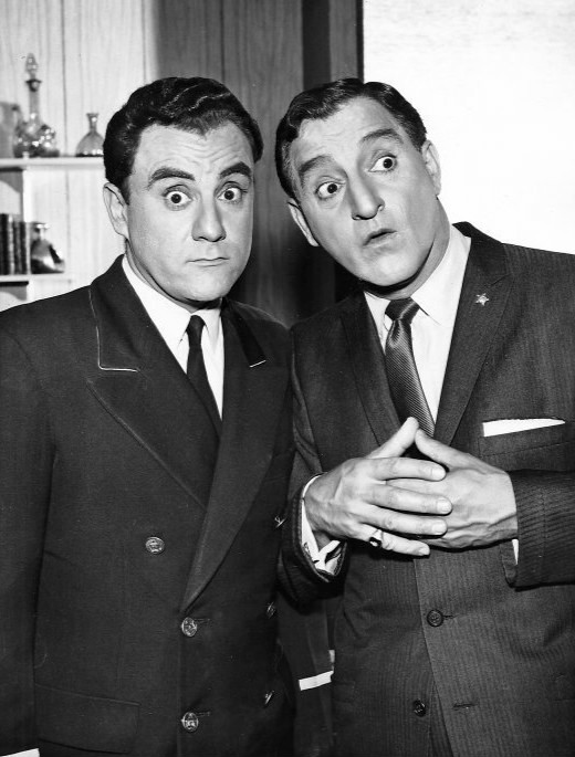 Photo of Bill Dana and Danny Thomas from the television program The Danny Thomas Show. Dana played the character Jose Jimenez on the program.